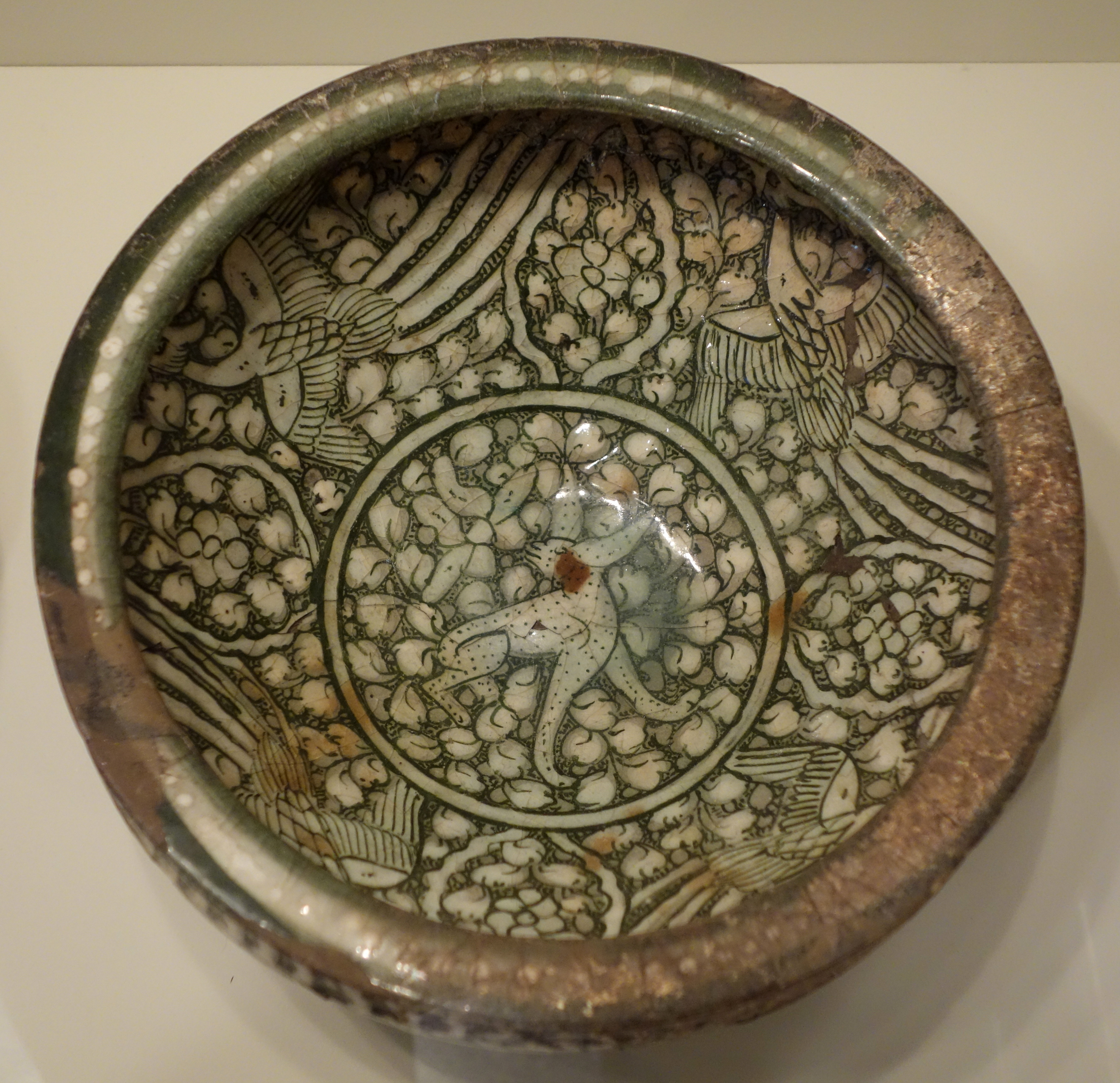 Exhibit in the Cincinnati Art Museum, Cincinnati, Ohio, USA. This artwork is in the public domain because the artist died more than 70 years ago.